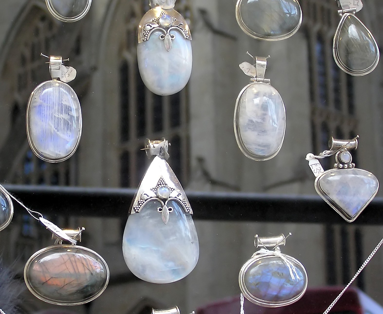 Moonstone cabochons in a jeweller’s window, Bath, England. (Should anyone wonder, the reflection in the window is Bath Abbey). Taken by Adrian Pingstone in March 2005 and placed in the public domain.